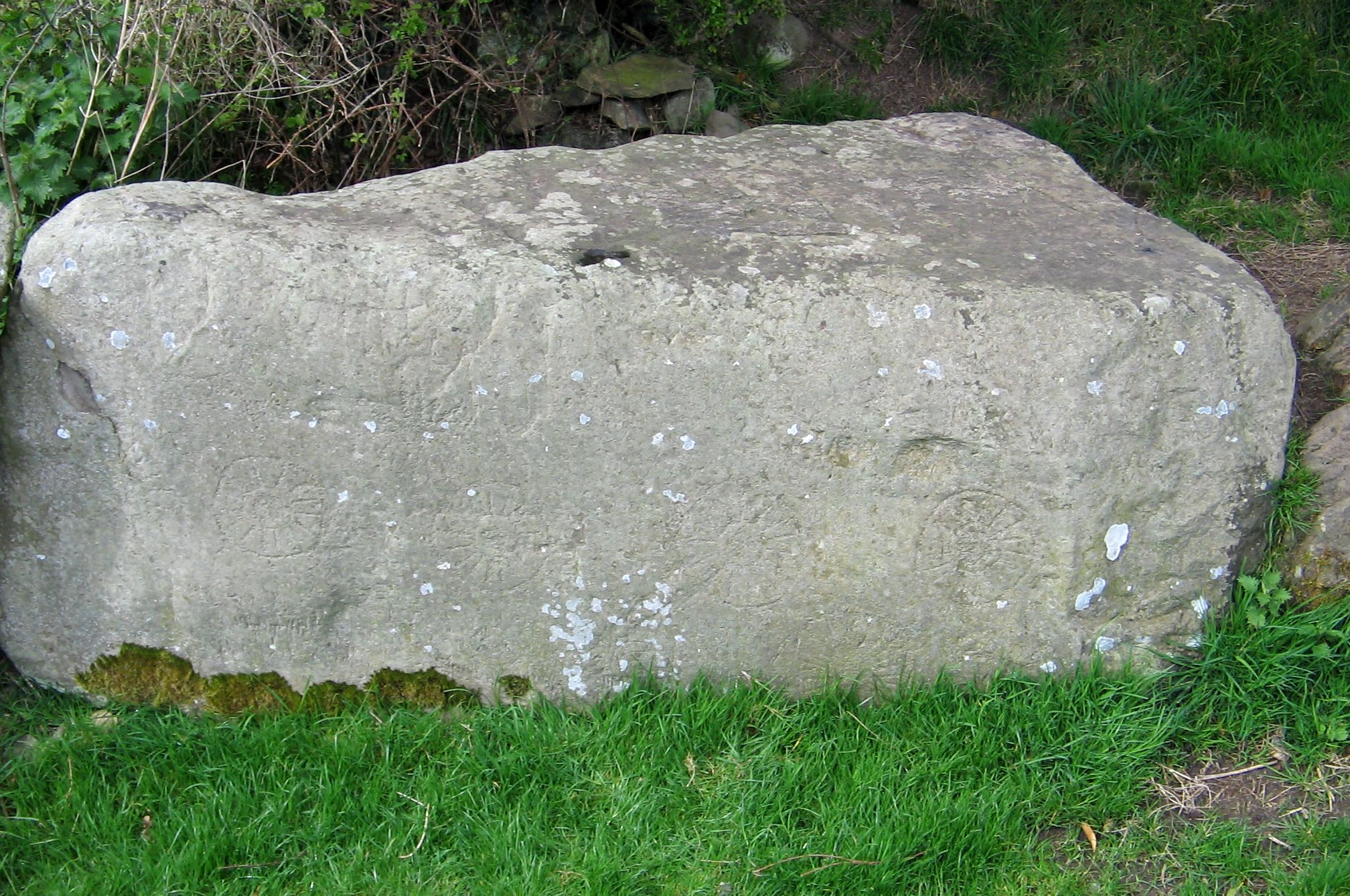 Dowth passage tomb - kerbstone named "Stone of the Seven Suns"